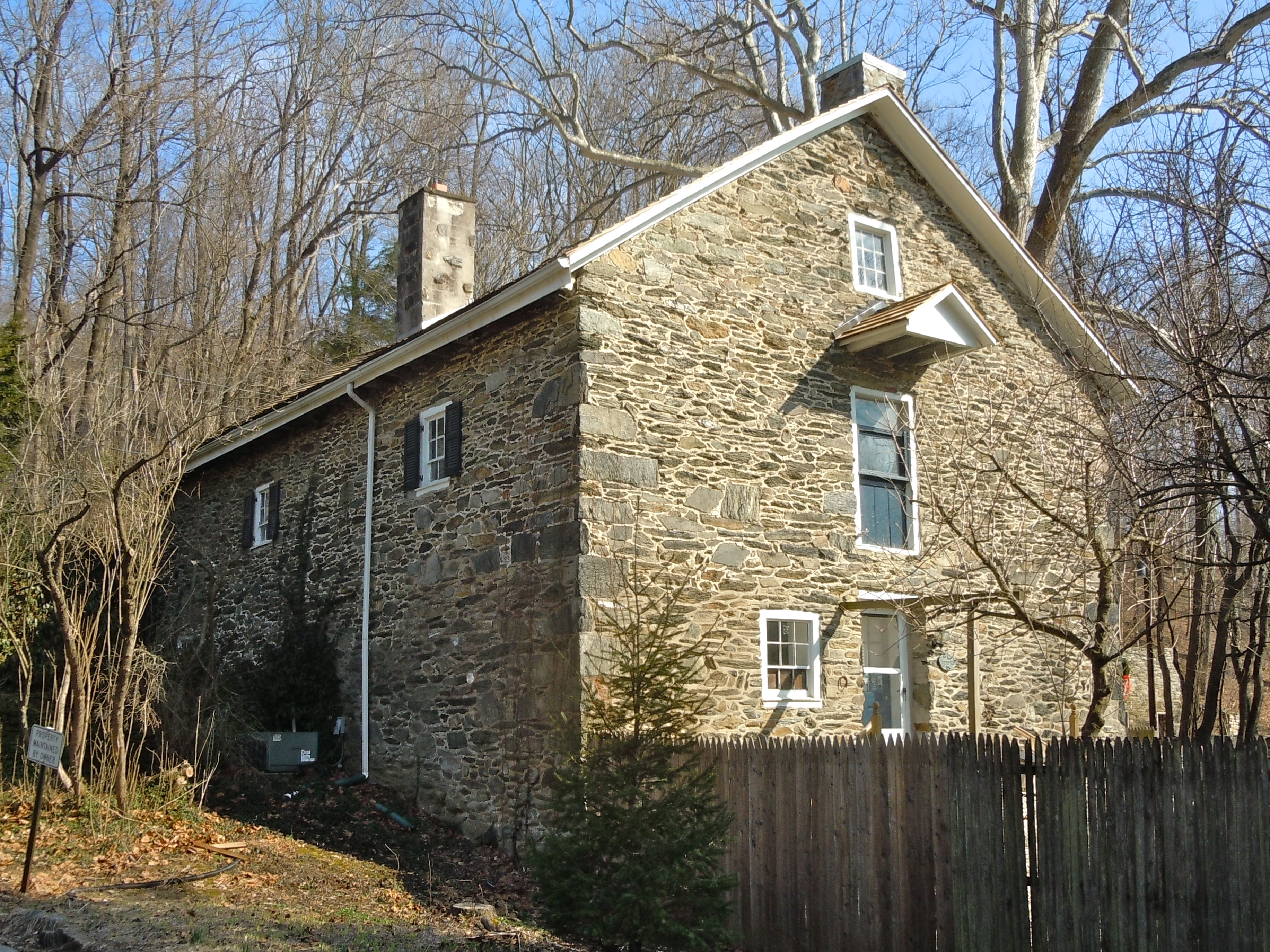 Paradise Valley Historic District on the NRHP since December 24, 1992 The historic district roughly follows Valley Creek Road from U.S. Route 322 north to Ravine Road, near Marshallton, East Bradford Township, Chester County, Pennsylvania. "Paradise" may be overstating it, but this is a nice "rural" area, enclosed in its own little valley by the creek. This old barn (looks like it's used as a house now) is right in the center of the district, just east of the creek on Harmony Hill Rd and Valley Creek Road. Nice fancy house diagonal corner to the barn.